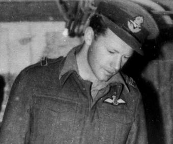 Flight Lieutenant Ian Smith of the Royal Air Force, pictured in either 1942 or 1943, during his service in the Second World War. Smith was later Prime Minister of Rhodesia between 1964 and 1979.